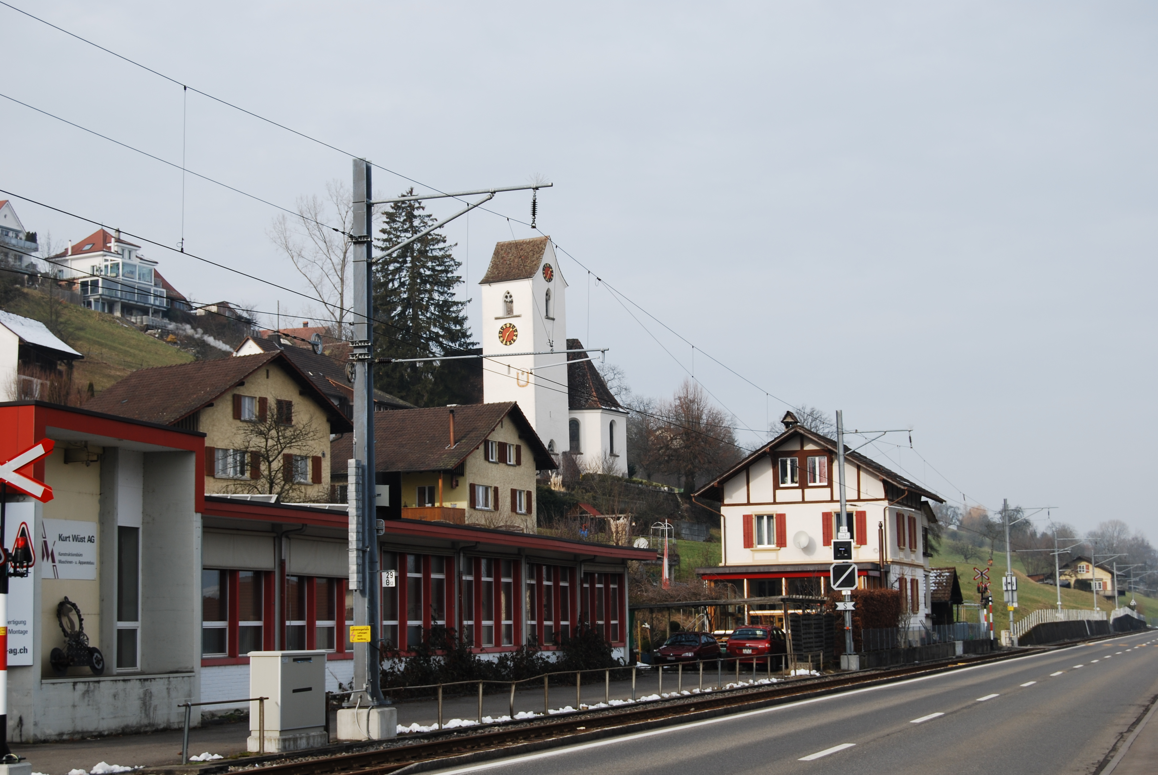 Church of Birrwil, canton of Aargau, SwitzerlandEsperanto: Preĝejo de Birrwil, Kantono Argovio, Svislando